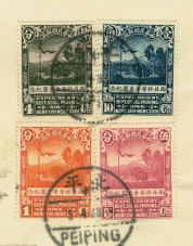 Stamp-edition for the Sino-Swedish Expedition in China 1927-1933 (China: Michel-No. 246 - 249).